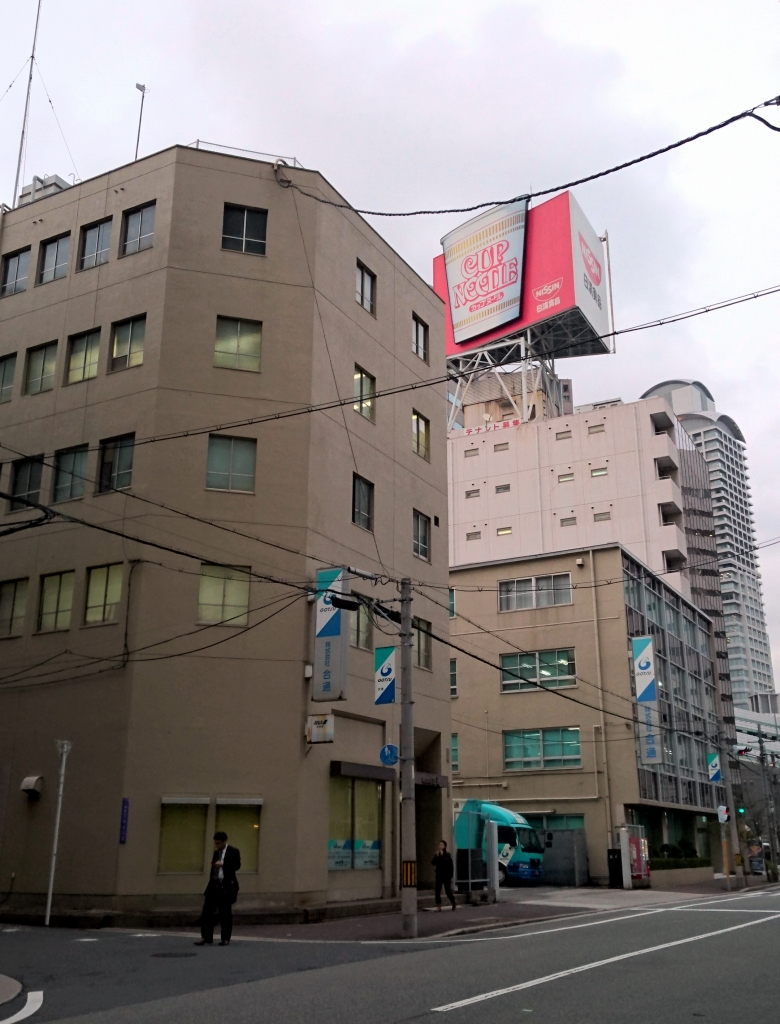 Gotsu Co., Ltd. head office